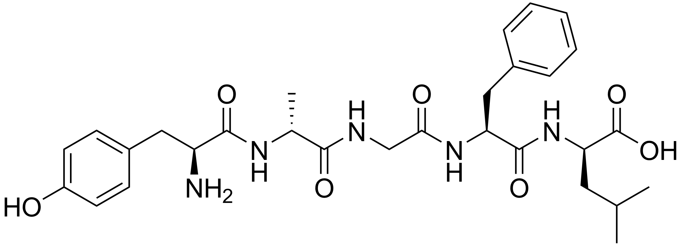 Chemical structure of 2-D-Alanine-5-D-leucine-enkephalin (DADLE)